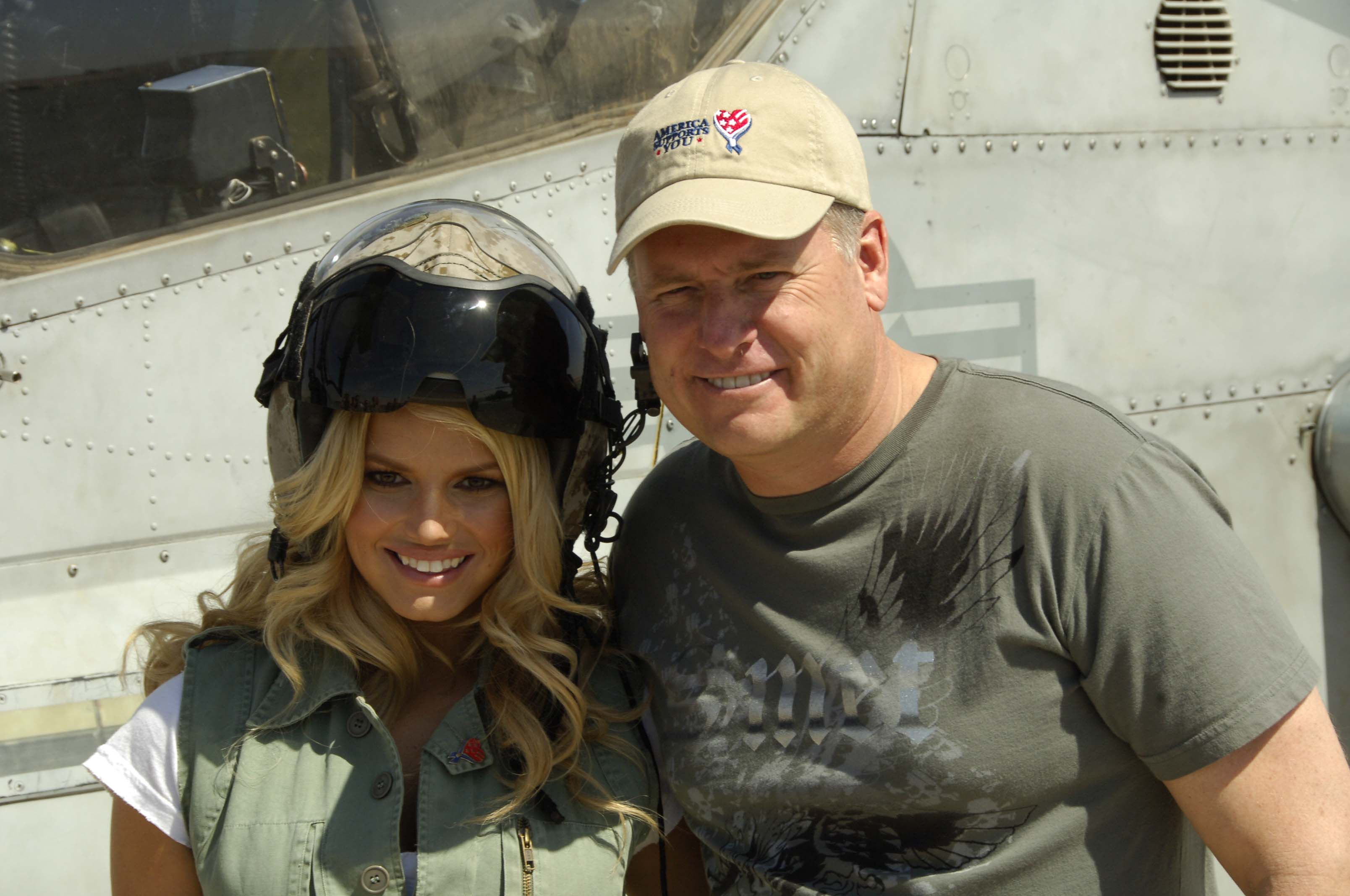 International superstar Jessica Simpson and her father, Joe, pose for a snapshot on the flight line at Camp Buehring, Kuwait, on Mar. 10, 2008. Simpson toured the camp and visited with troops during the day before performing at the Operation: MySpace concert in the evening.